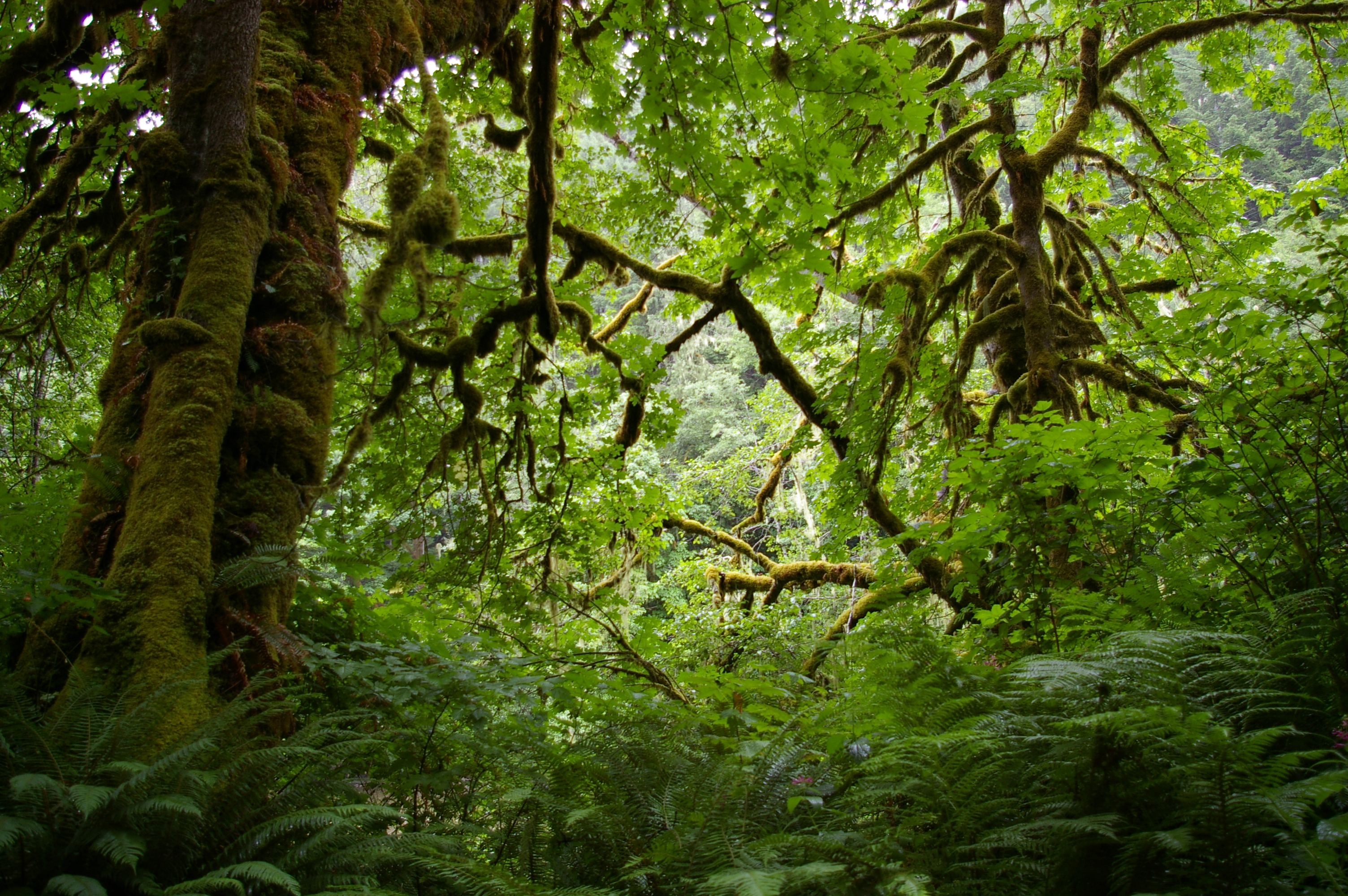 San Juan Bridge Forestry Recreation Site